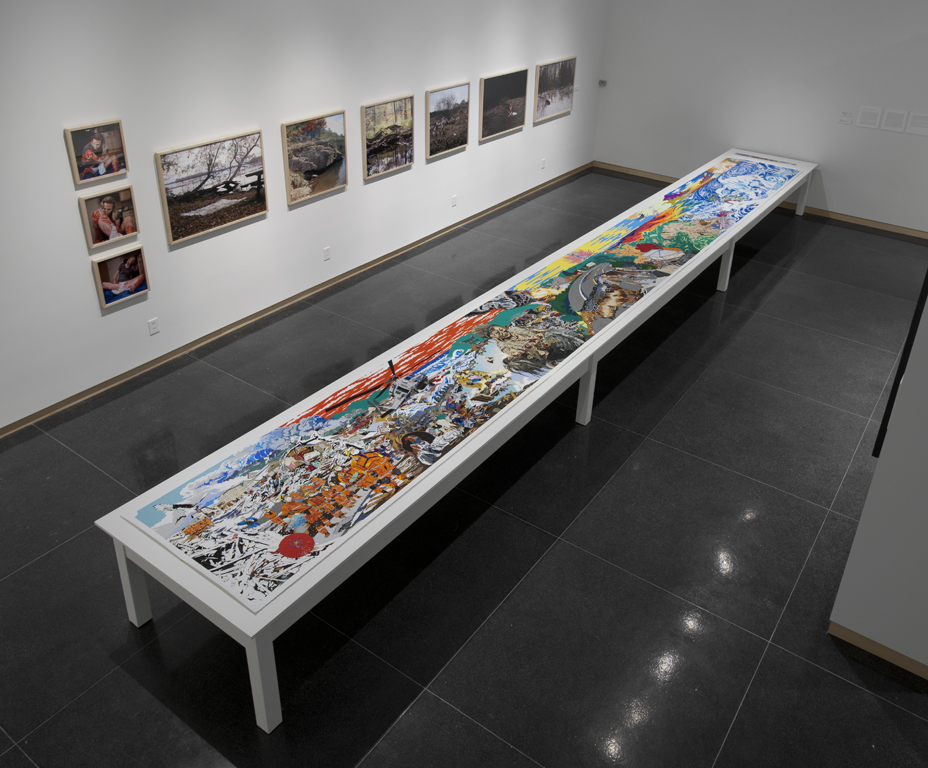 "Baptism of concrete estuary," gouache on paper 42"x366", 2012. Image courtesy of the artist.